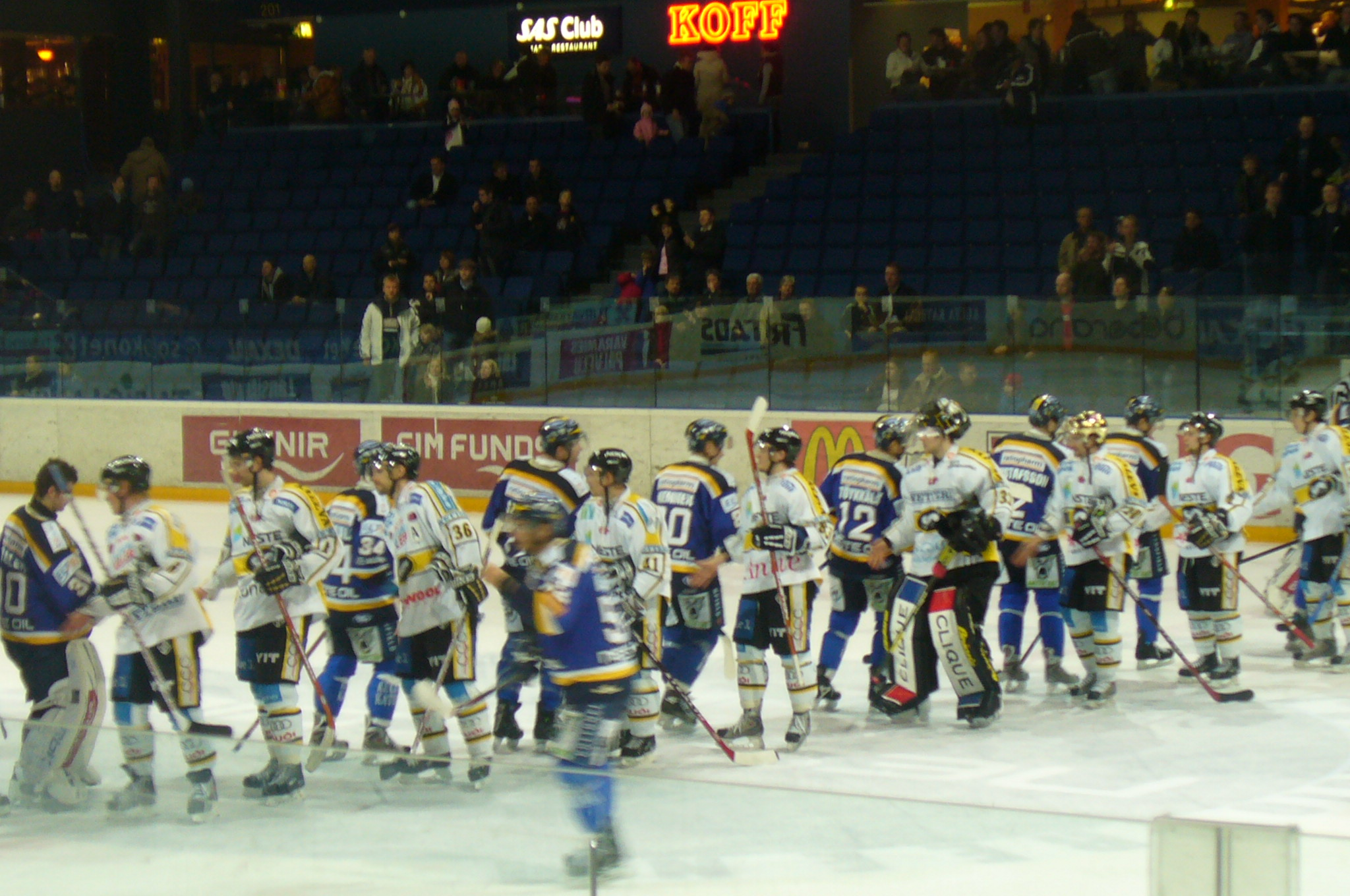 Finnish ice hockey team Kärpät Oulu (white) and Espoo Blues (blue)